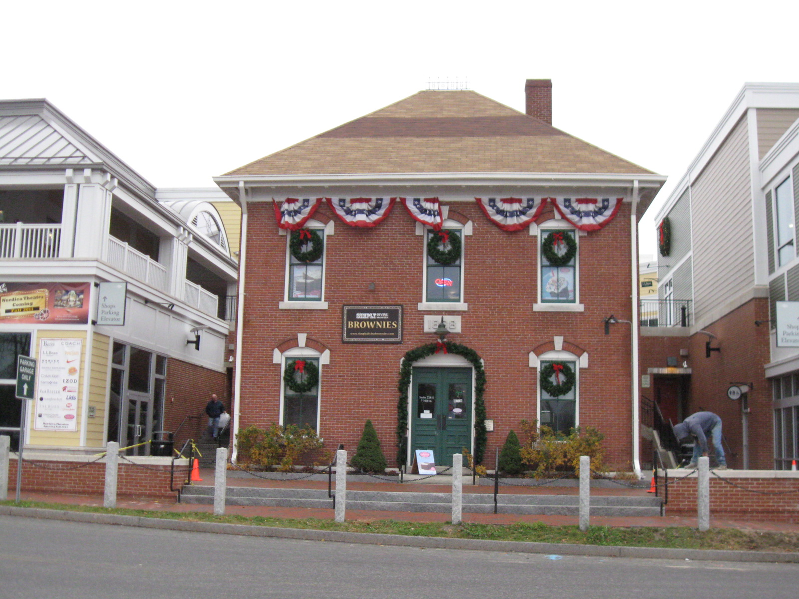 E.B. Mallett Office Building, Freeport, Maine. Photo by Ken Gallager, Nov. 11, 2011.